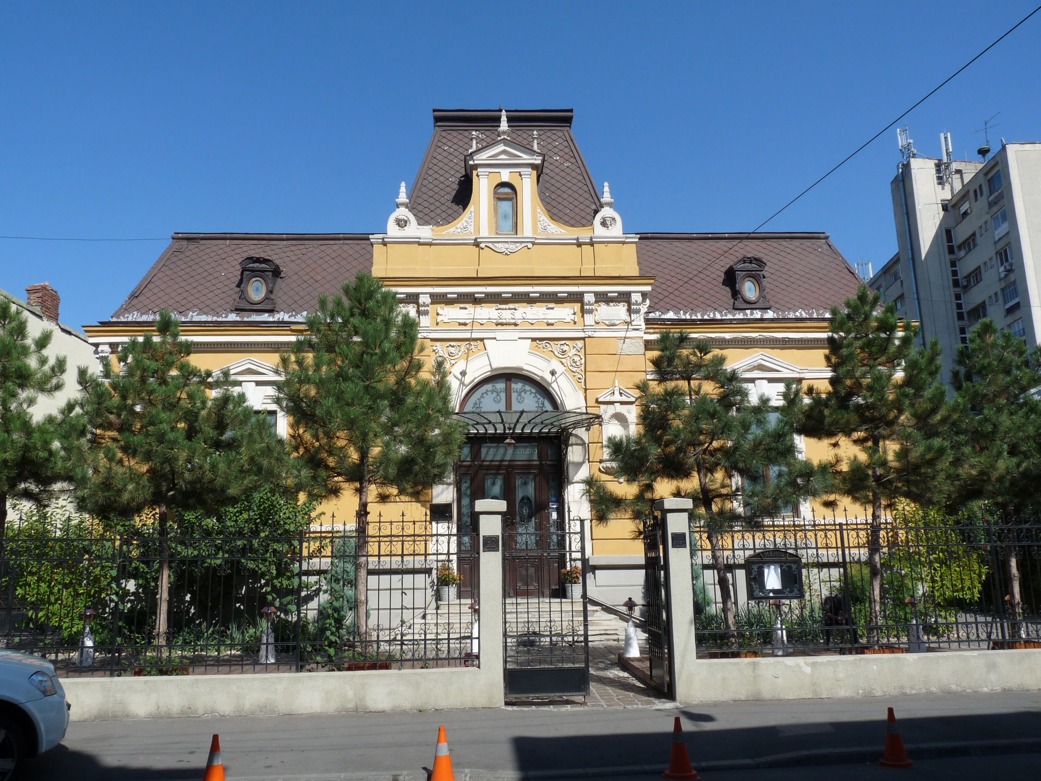 Building on IL Caragiale street 32, Bucharest, RomaniaRomână: Clădirea monument istoric de pe str. I.L. Caragiale nr. 32, București, România